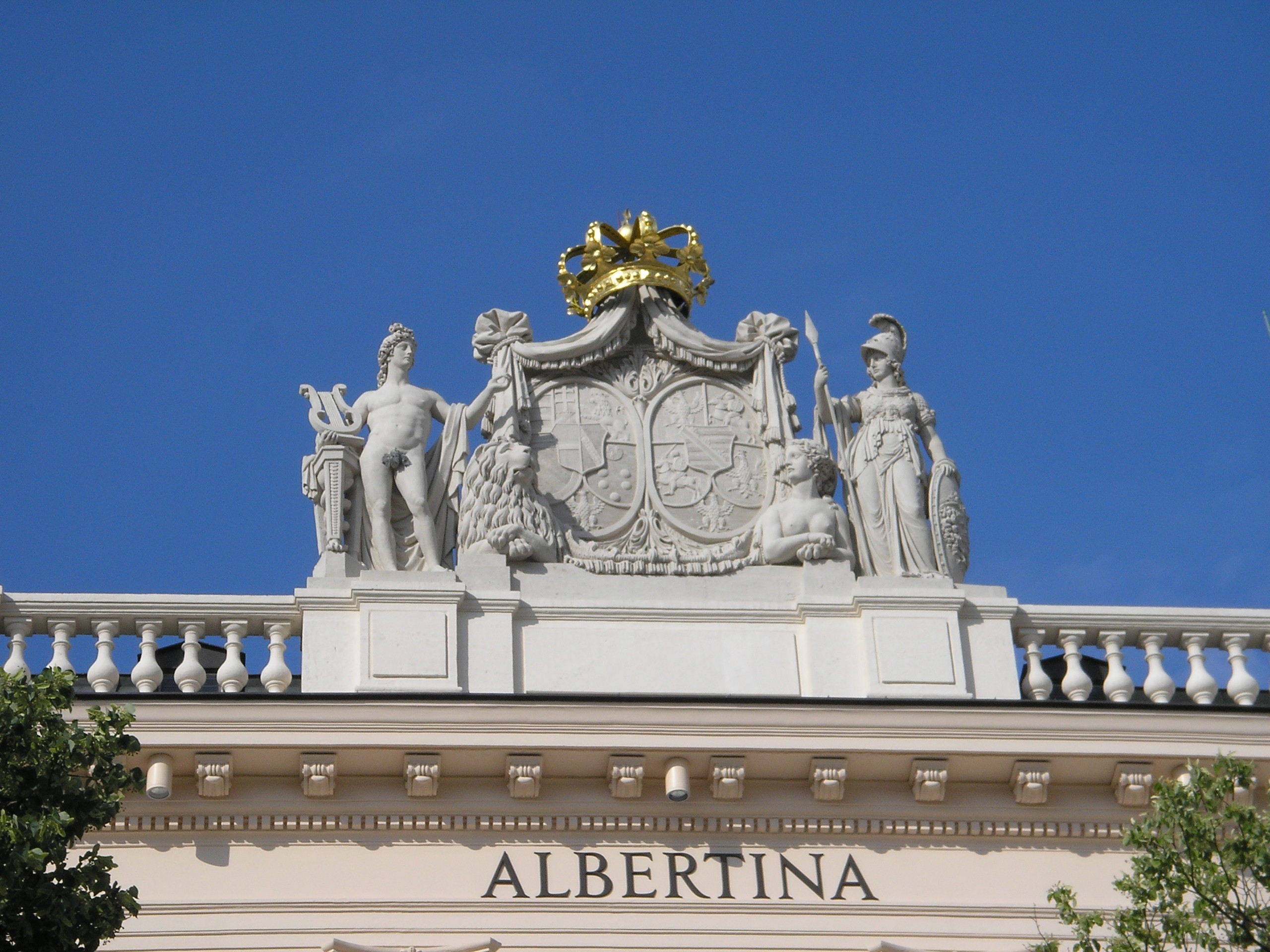 The Albertina, former Palais Erzherzog Albrecht, in Vienna